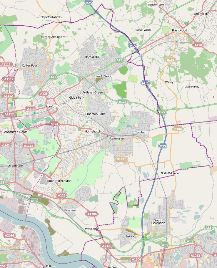 Map of Havering